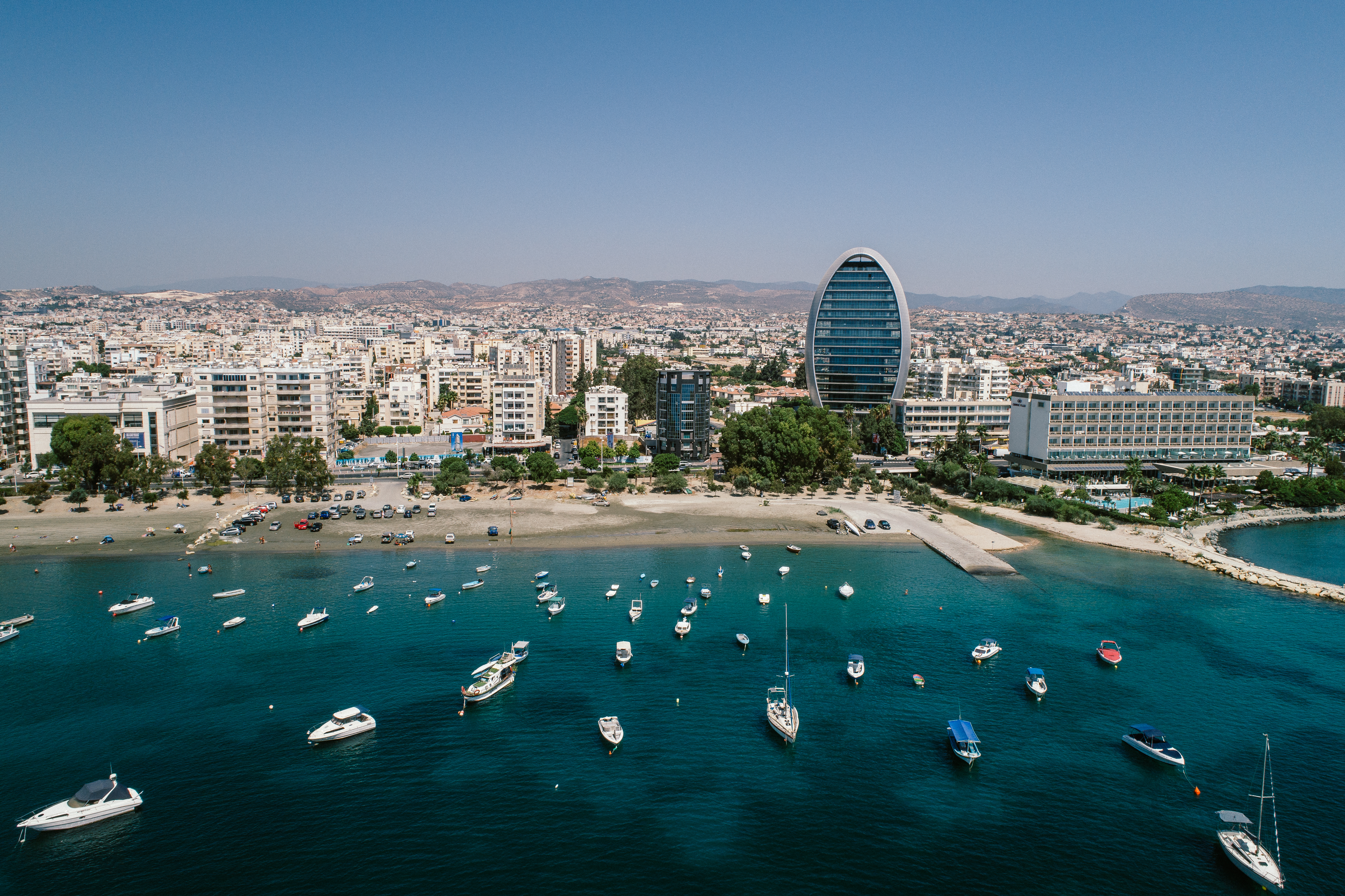 Designed by internationally acclaimed architects Atkins, the tallest commercial building in Cyprus is located in the Limassol city centre.